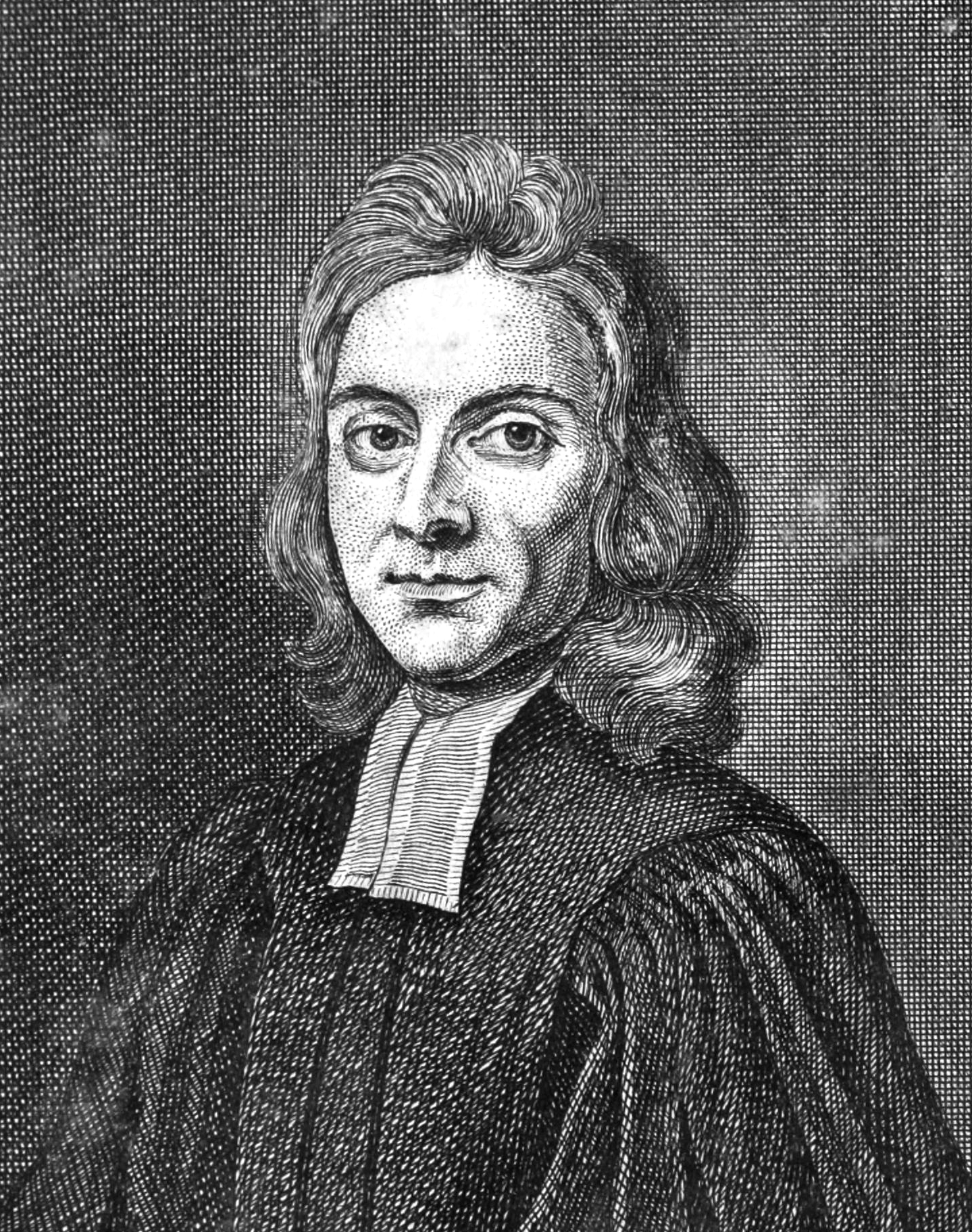 John Kettlewell, engraving by "Parr", frontispiece of An Help and exhortation to worthy communicating, 10th ed. (1737)